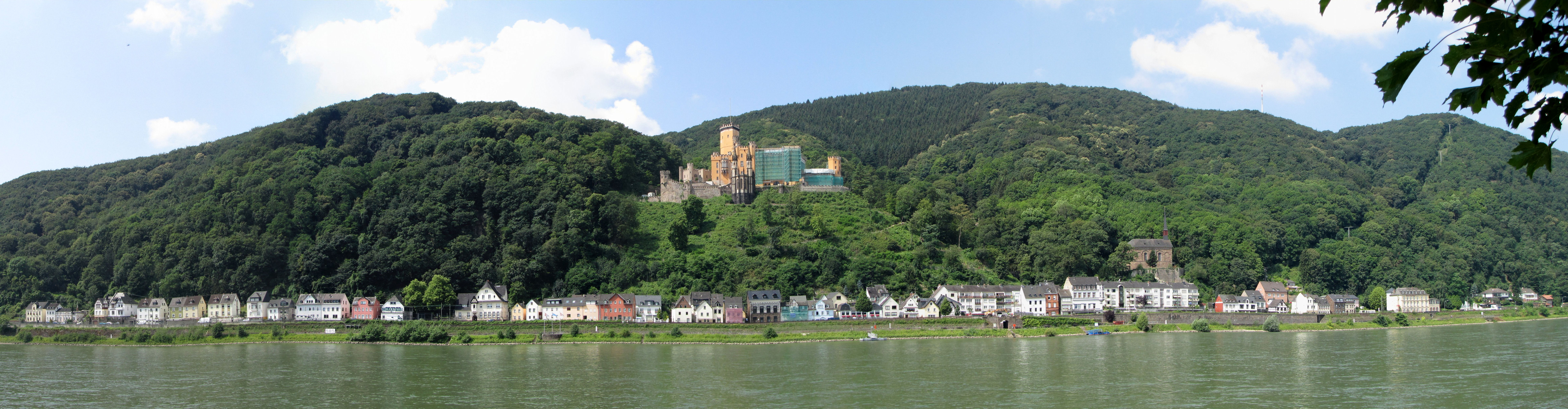 Panorama of Koblenz-Stolzenfels